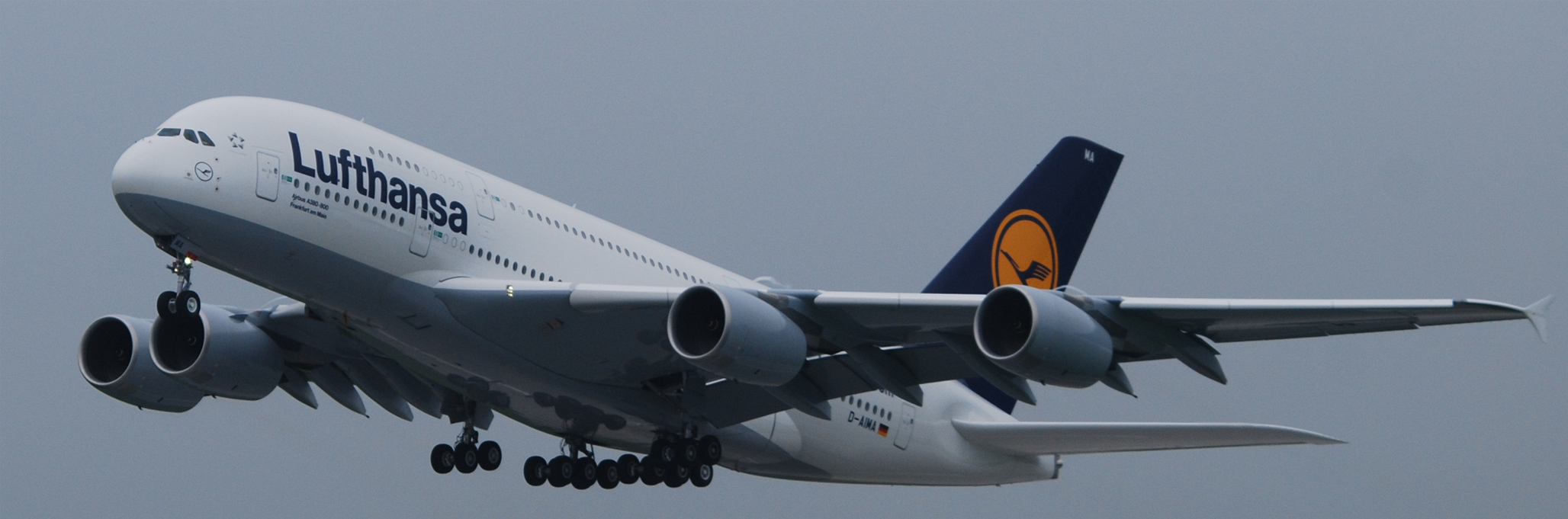 Airbus A380 at Stuttgart Airport